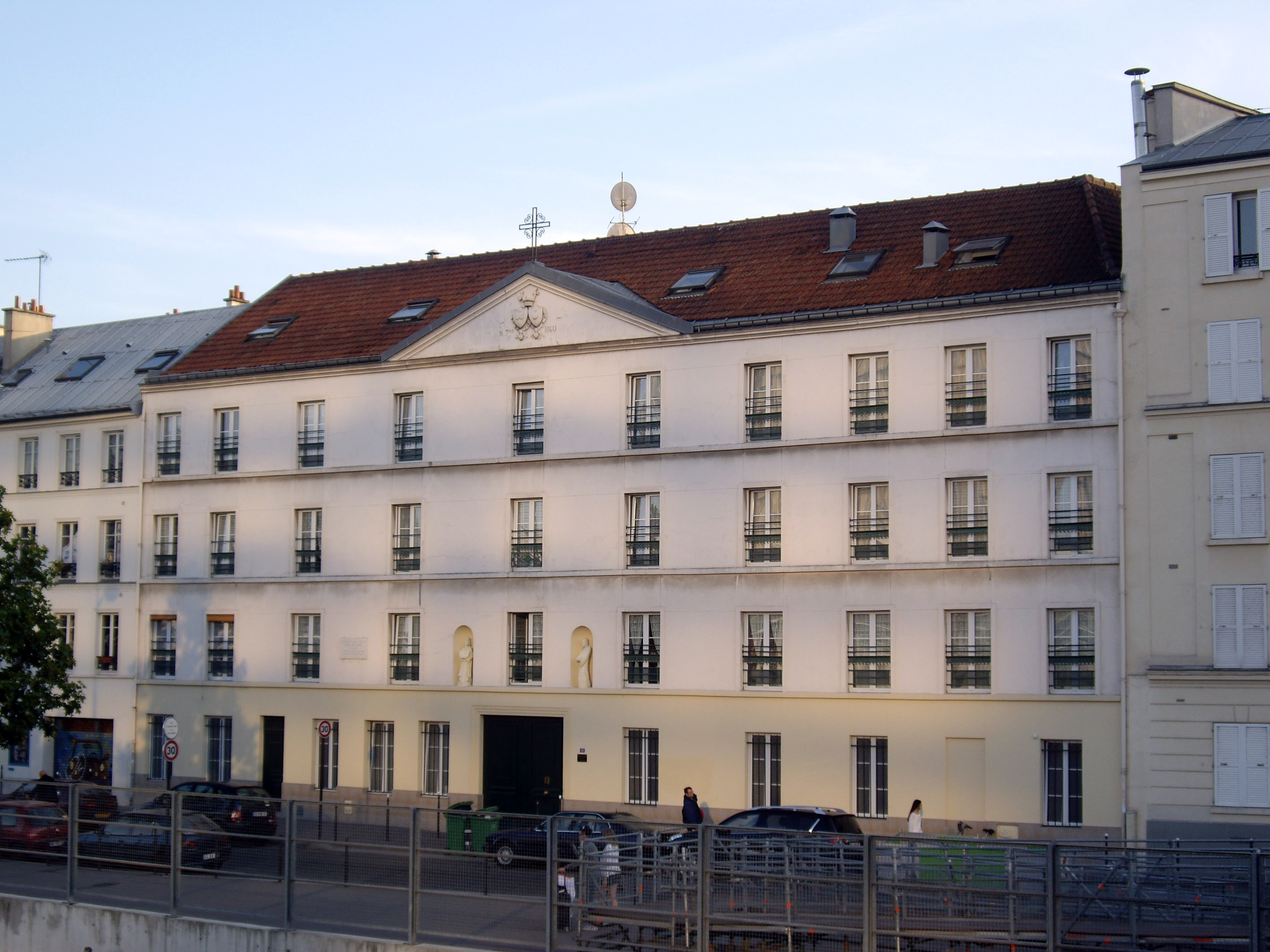 Œuvre de Saint-Casimir, 119 rue du Chevaleret, Paris 13th, where the Polish poet Cyprian Kamil Norwid spent the last years of his life from 1877 to 1883.